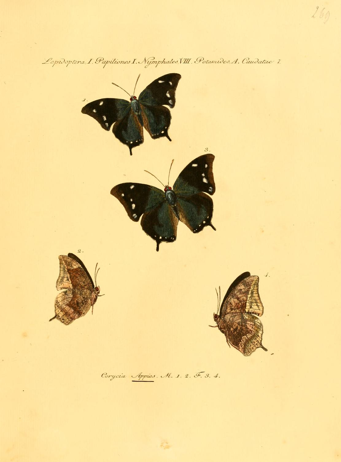 Jacob Hübner Sammlung exotischer Schmetterlinge Vol. 2 ([1819] - [1827] Plate 55 Coycia appias synonym for Memphis appias Hübner, 1825